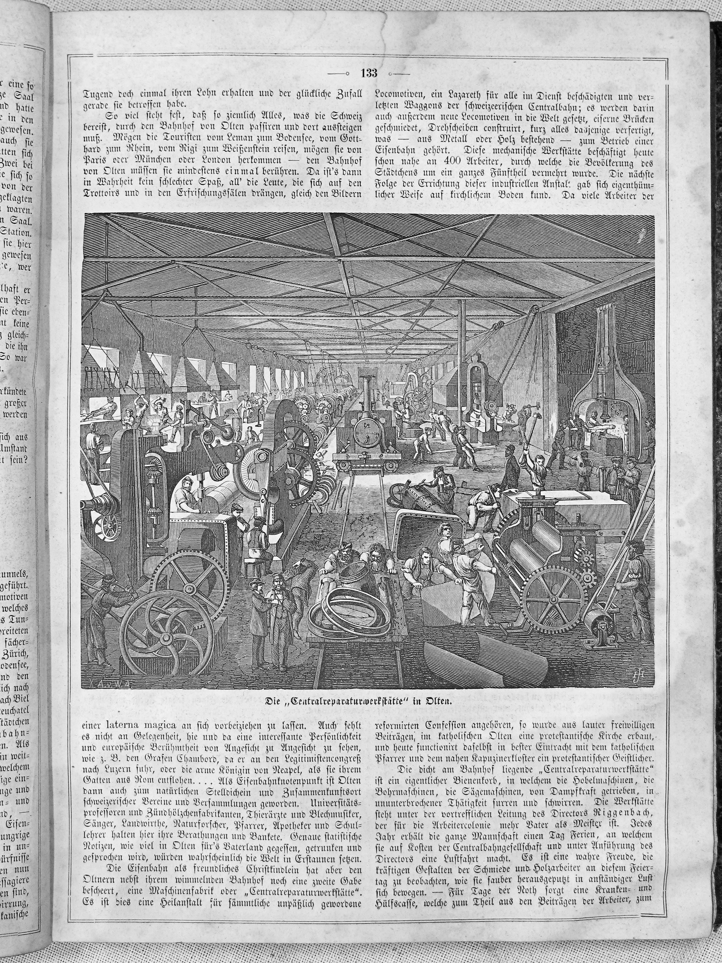 Page 133 from journal Die Gartenlaube for 1863. Extracted image (if any): File:Die Gartenlaube (1863) b 133.jpg - hi res, ~2.5 MB.